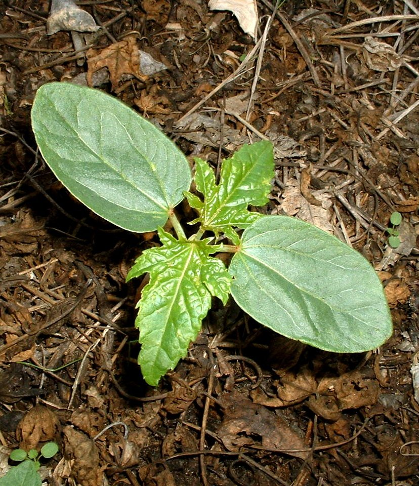 Young castor bean plant (Ricinus communis) showing prominent cotyledons (embryonic leaves). Photographed by myself this afternoon (Nov. 24, 2005) with Fuji FinePix 2650.